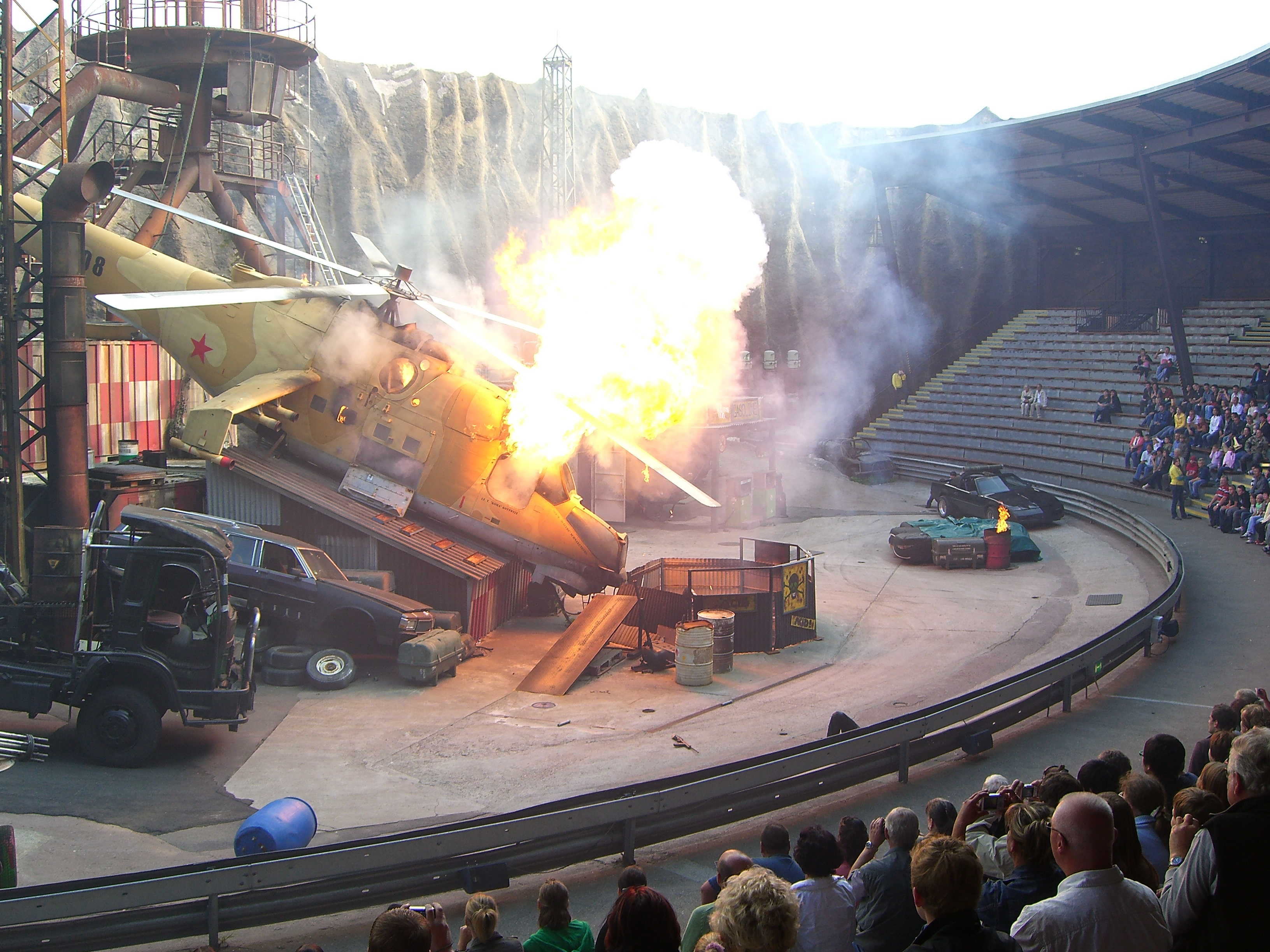 Bartertown stuntshow in "Filmpark Babelsberg", Potsdam-Babelsberg.